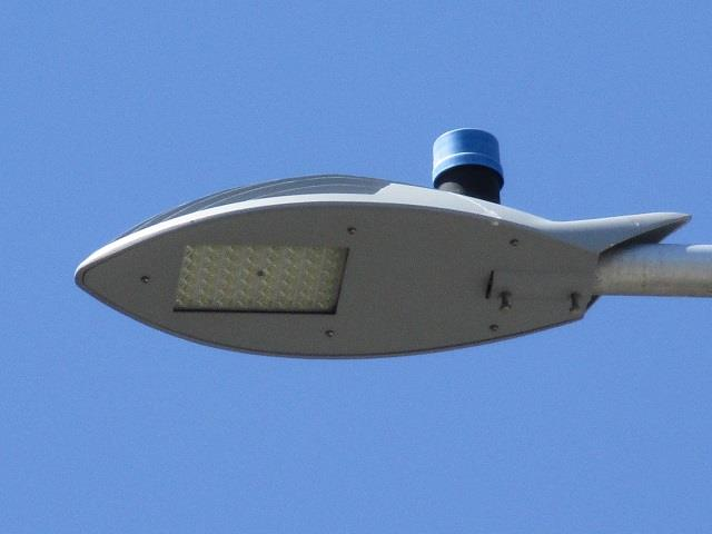 History of street lighting: Everlight Electronics SL-Dolphin (50–150 watts) , found in the parking lot of Blanchard's in Jamaica Plain, Boston, MA